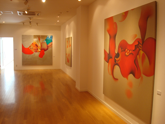 Bottazzi exhibition Miyanomori Museum - 2011 exhibition